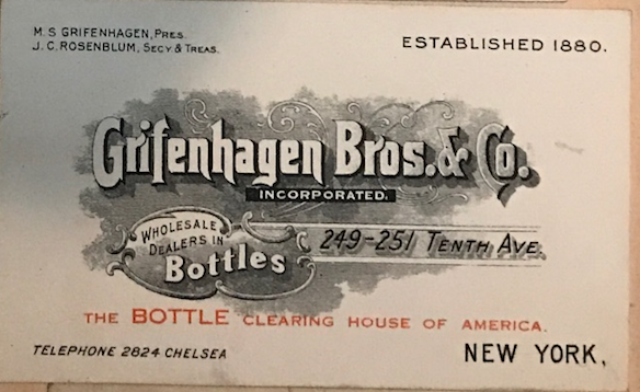 Business card of Grifenhagen Bros & Co. Inc., President and founder Max Samuel Grifenhagen